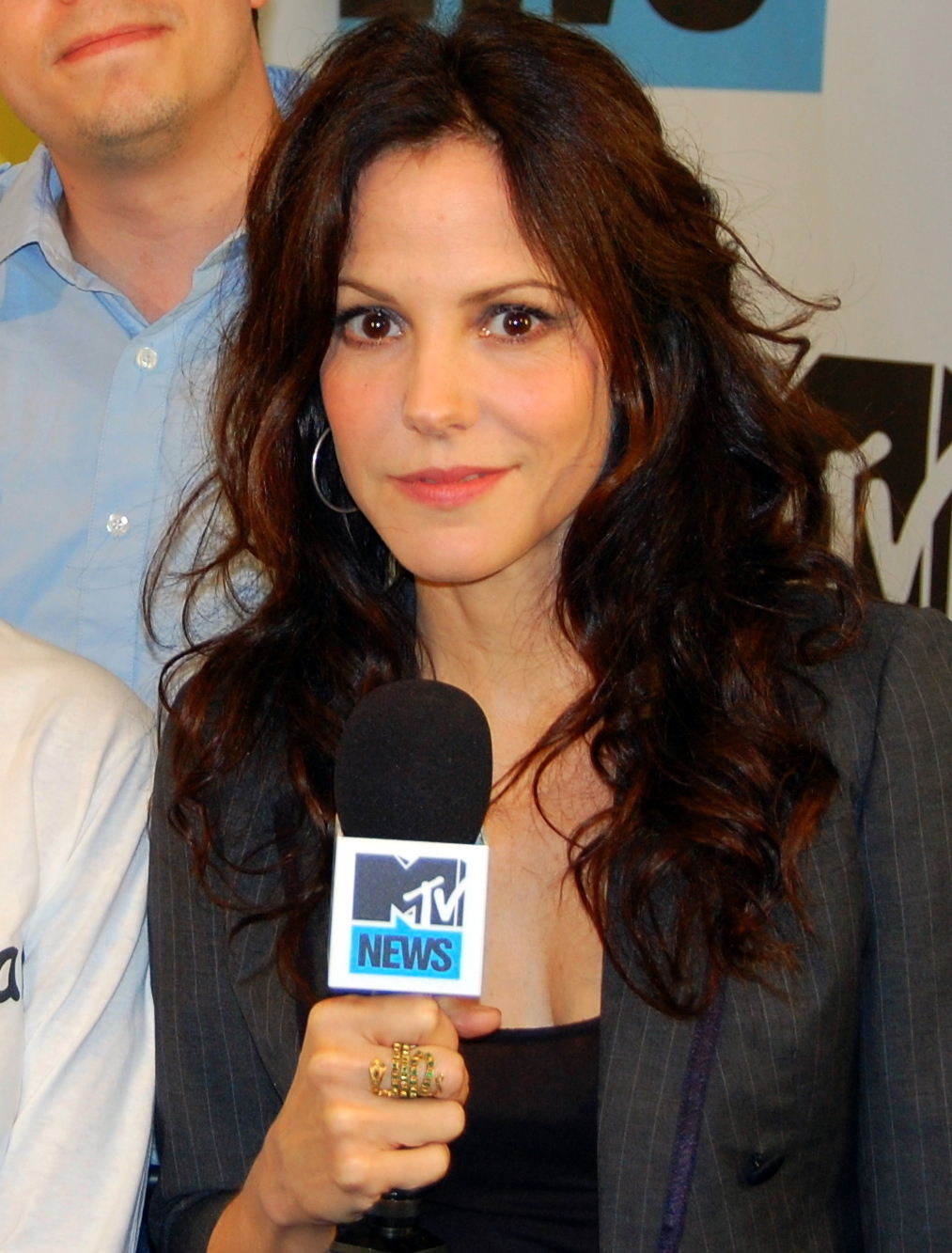 Mary-Louise Parker at the 2010 Comic-Con in San Diego.